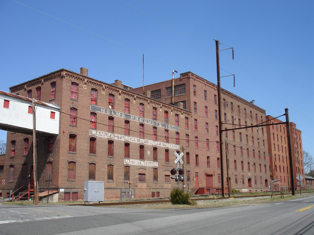 This is a photograph of the G.W. Helme Snuff Mill in Helmetta, New Jersey, a building listed on the National Register of Historic Places.